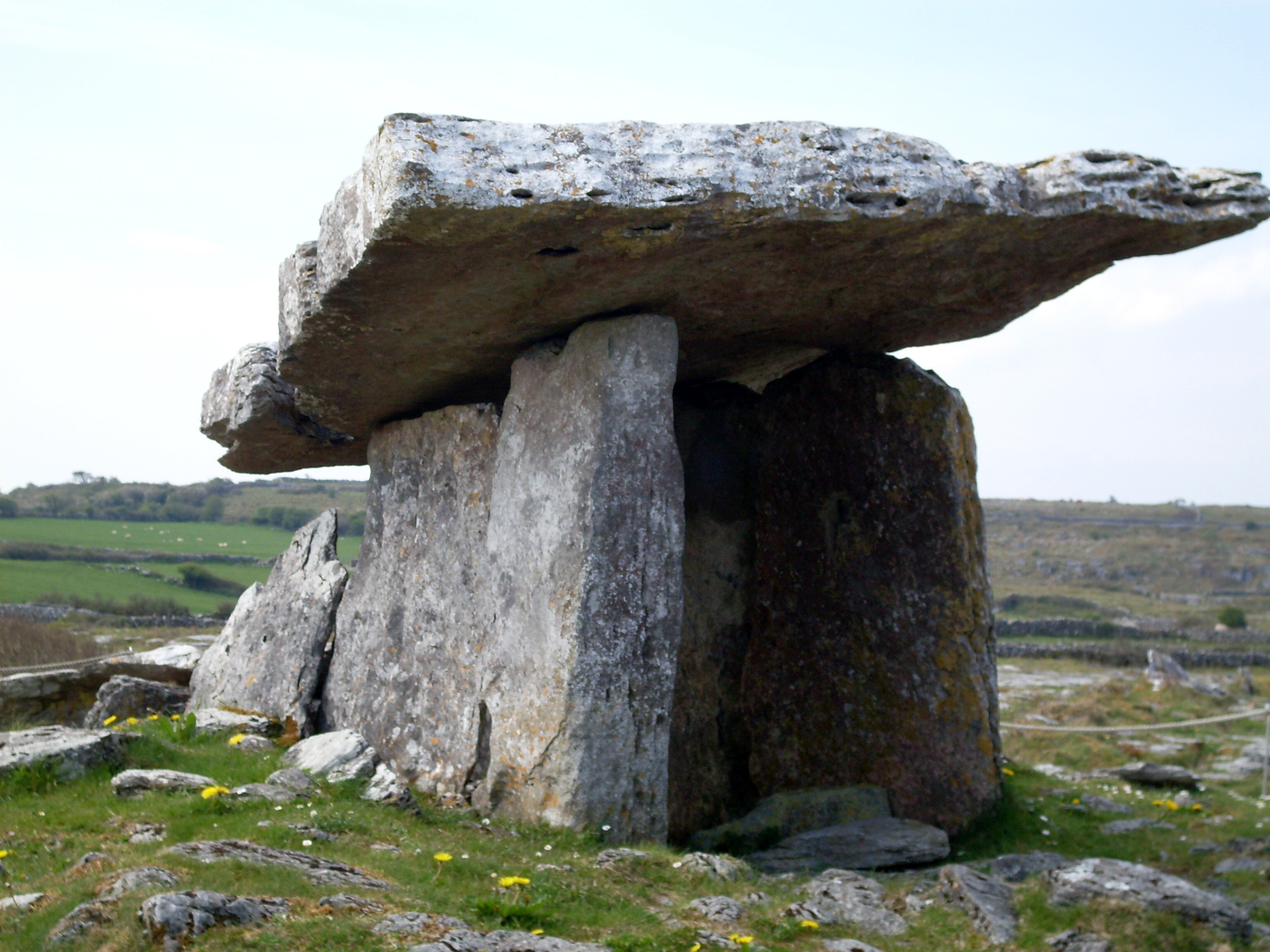 The Pulnabrone dolmen